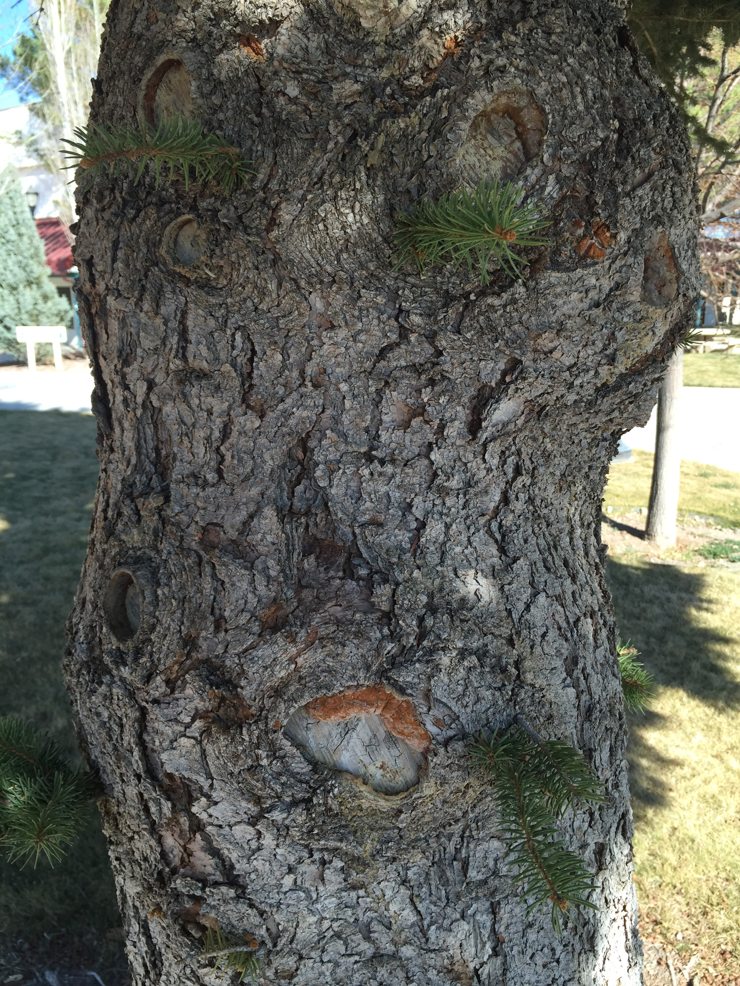 Colorado Spruce with trunk sprouts at Great Basin College in Elko, Nevada